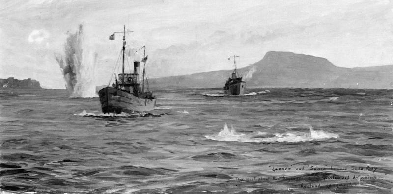 Pictures For Illustrating Ritchie Ii Book. November and December 1942, Alexandria, Pictures of Paintings by Lieutenant Commander R Langmaid, Rn, Official Fleet Artist. These Pictures Are For Illustrating a Naval War Book by Paymaster Captain L a Da C Ritchie, Rn.